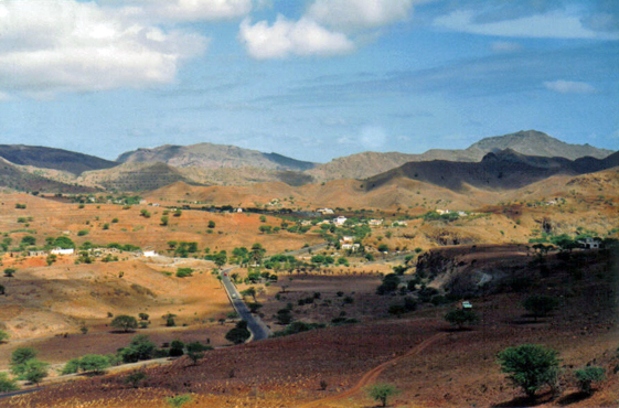 Southern part of island of Santiago Island, Cape Verde